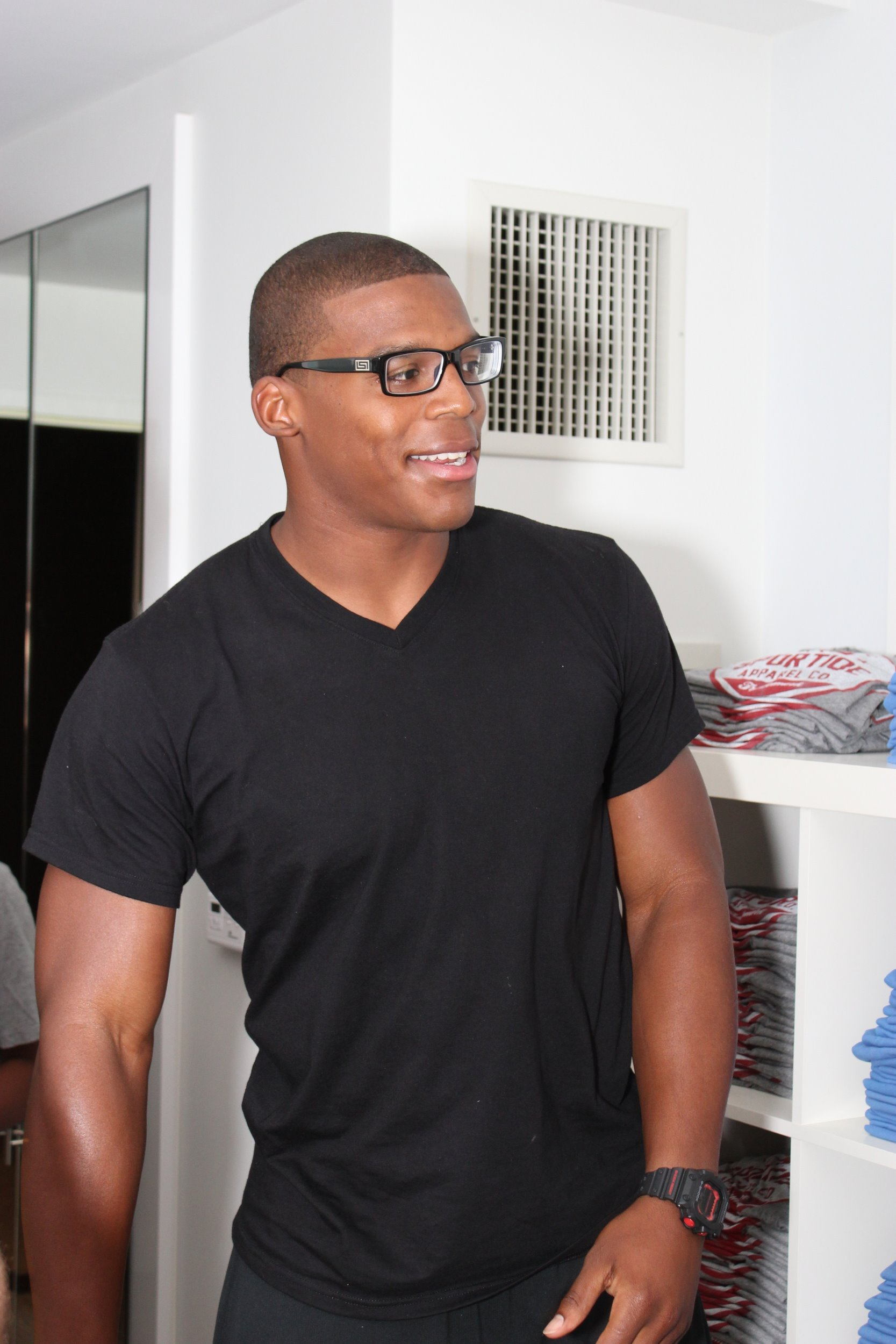 Cam Newton, Quarterback for the Carolina Panthers